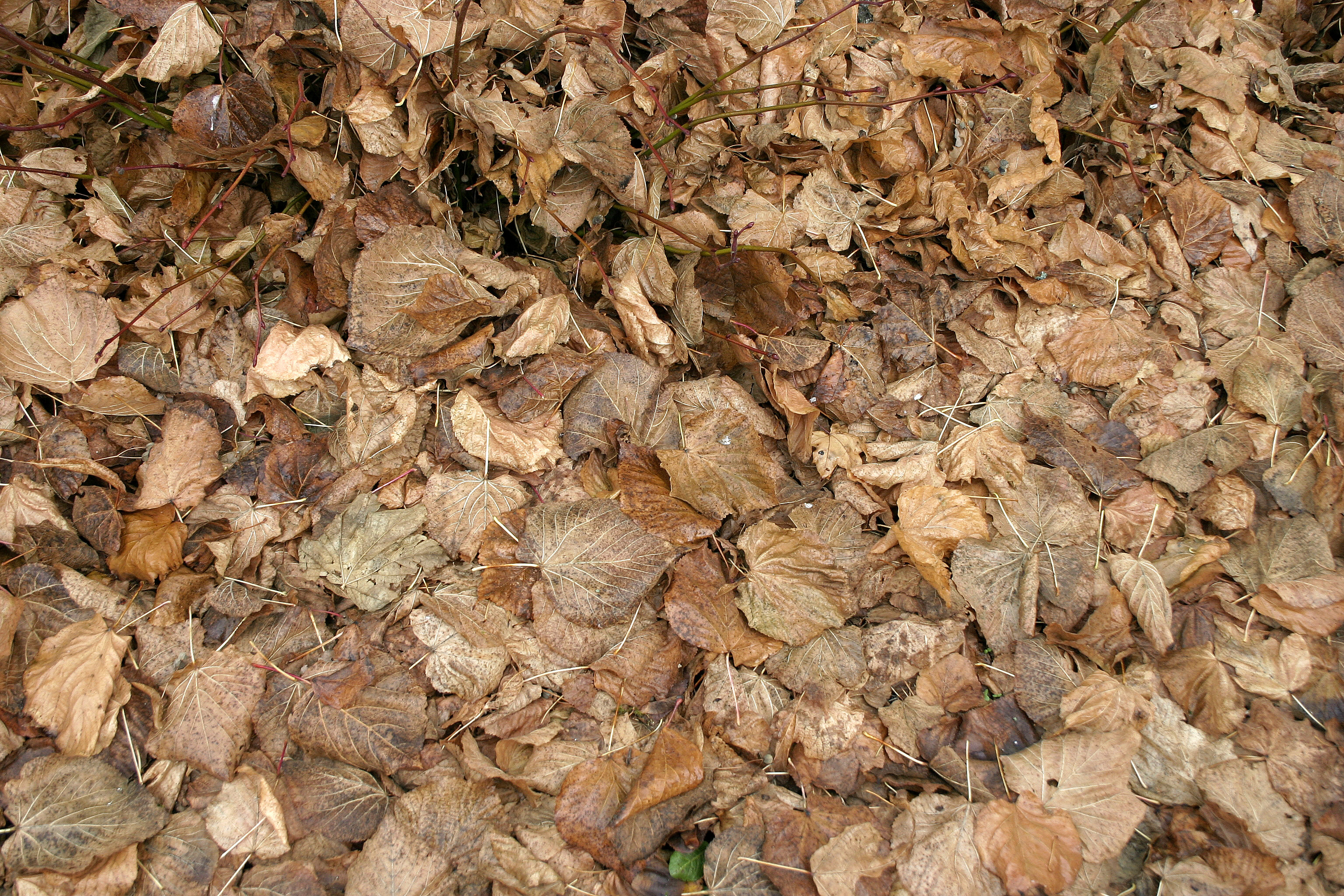 Autumn leaves